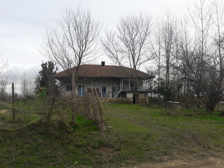 MArkie old home